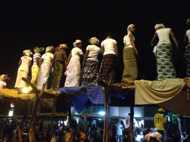 Kourbi Celebrations in Bondoukou